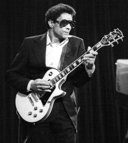 American Chicago blues guitarist and singer Hubert Sumlin in Montreux, Switzerland.